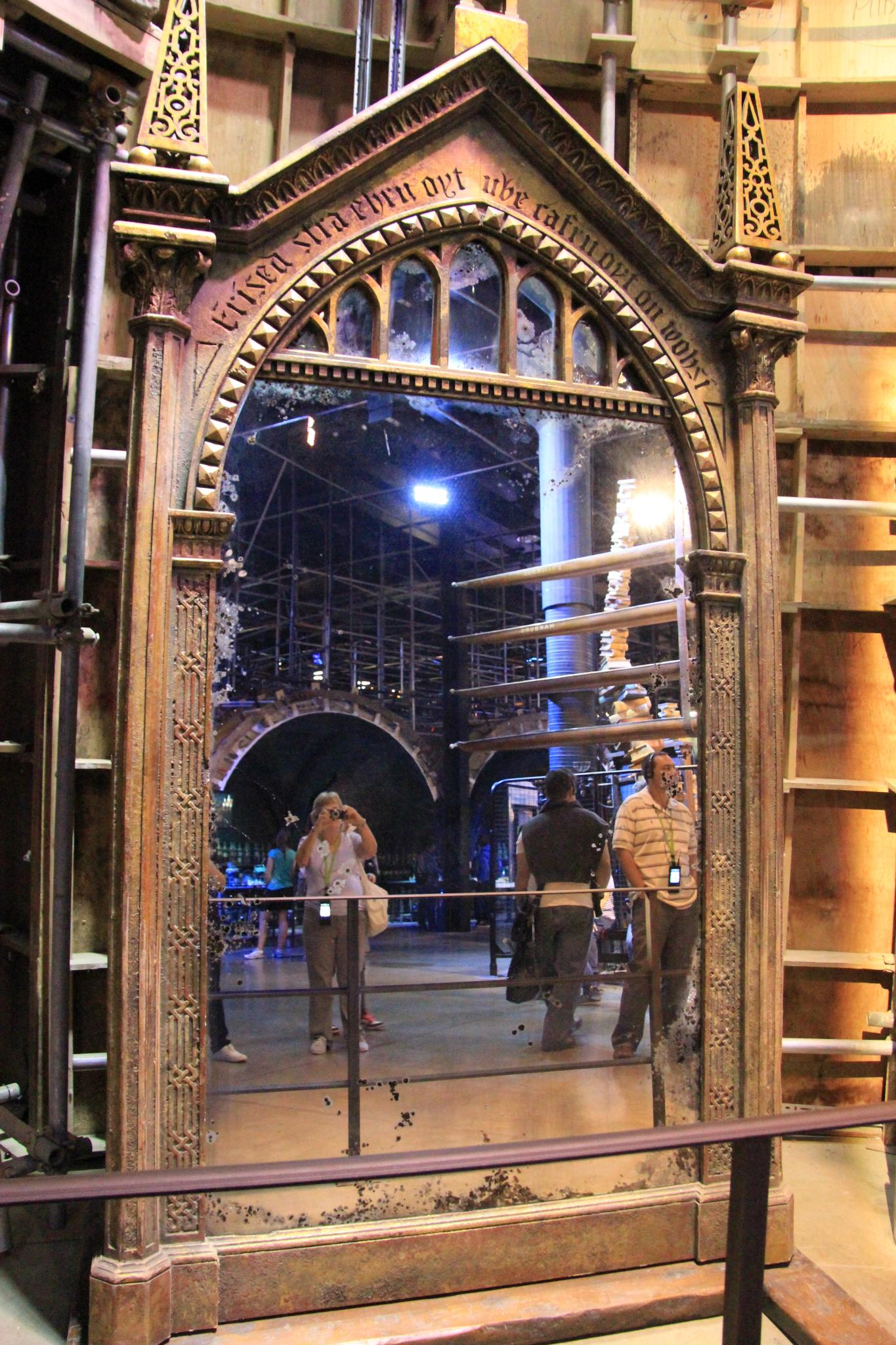 Warner Bros. Studio Tour London: The Making of Harry Potter.